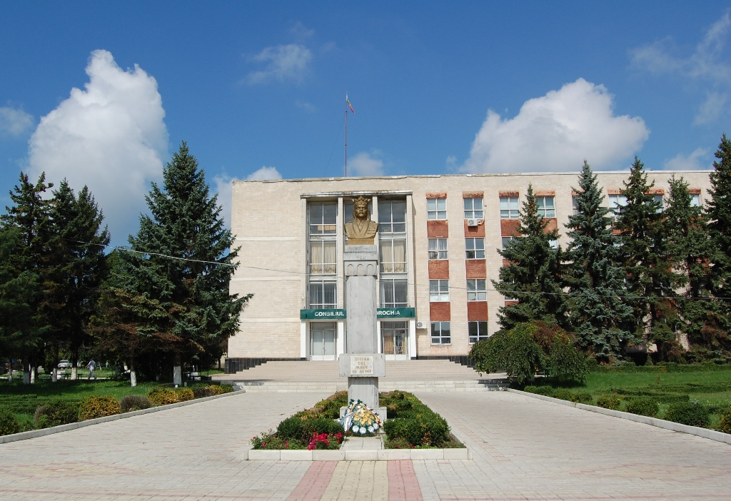 Consiliu Raional Drochia si Bustul lui St.cel Mare